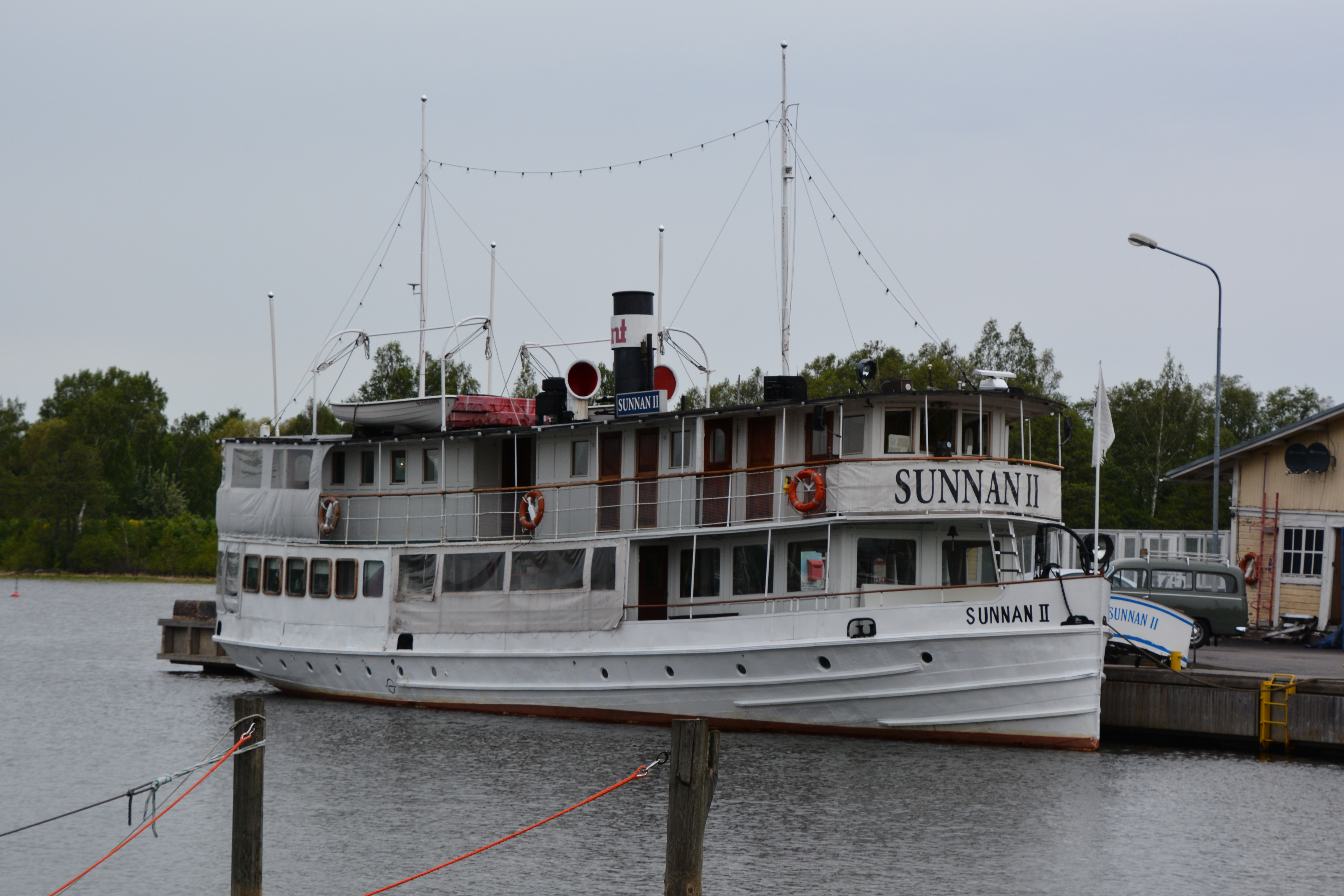 Finnish passenger ship Sunnan II in Ekenäs